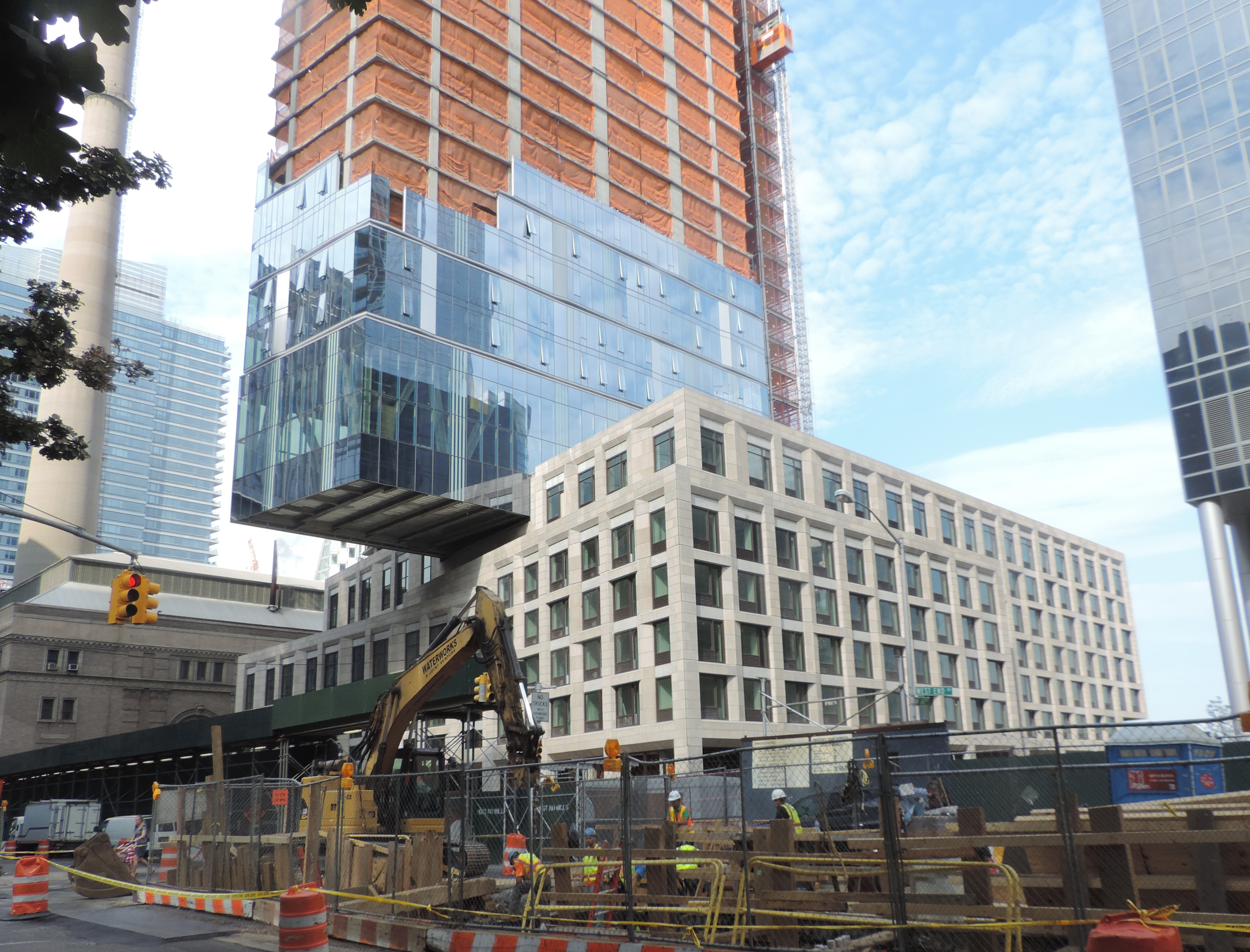 Looking west at lower part of 10 West End Avenue under construction on a parly sunny midday.